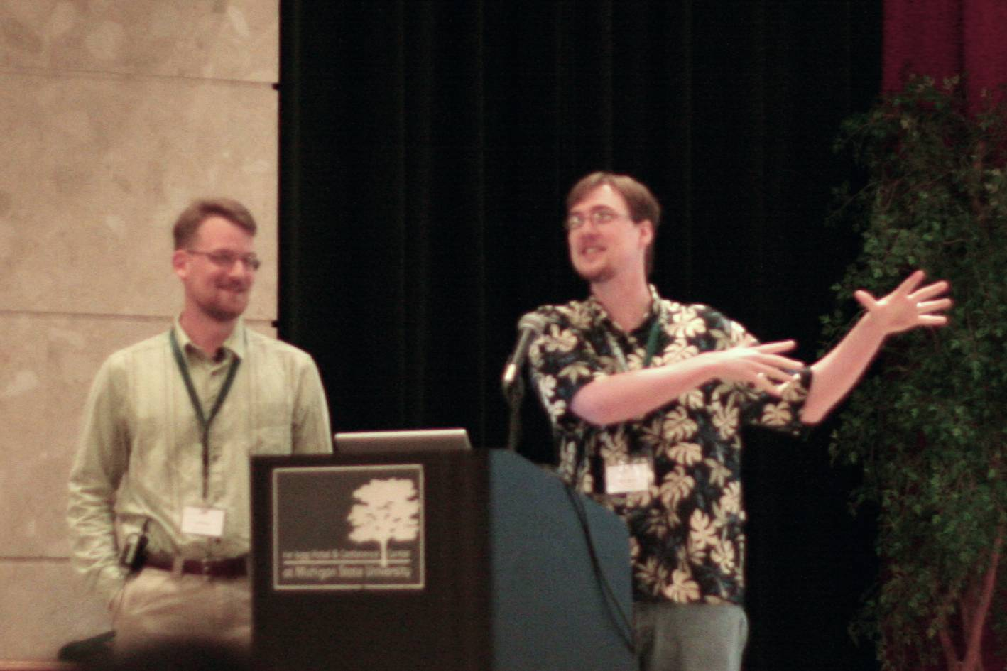 founders present at Communities and Technologies, MSU 2007